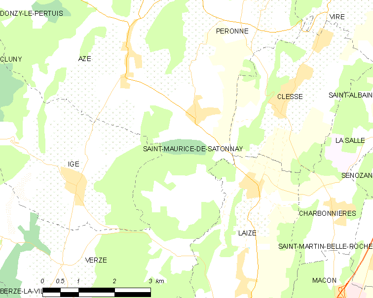 Map of French municipality